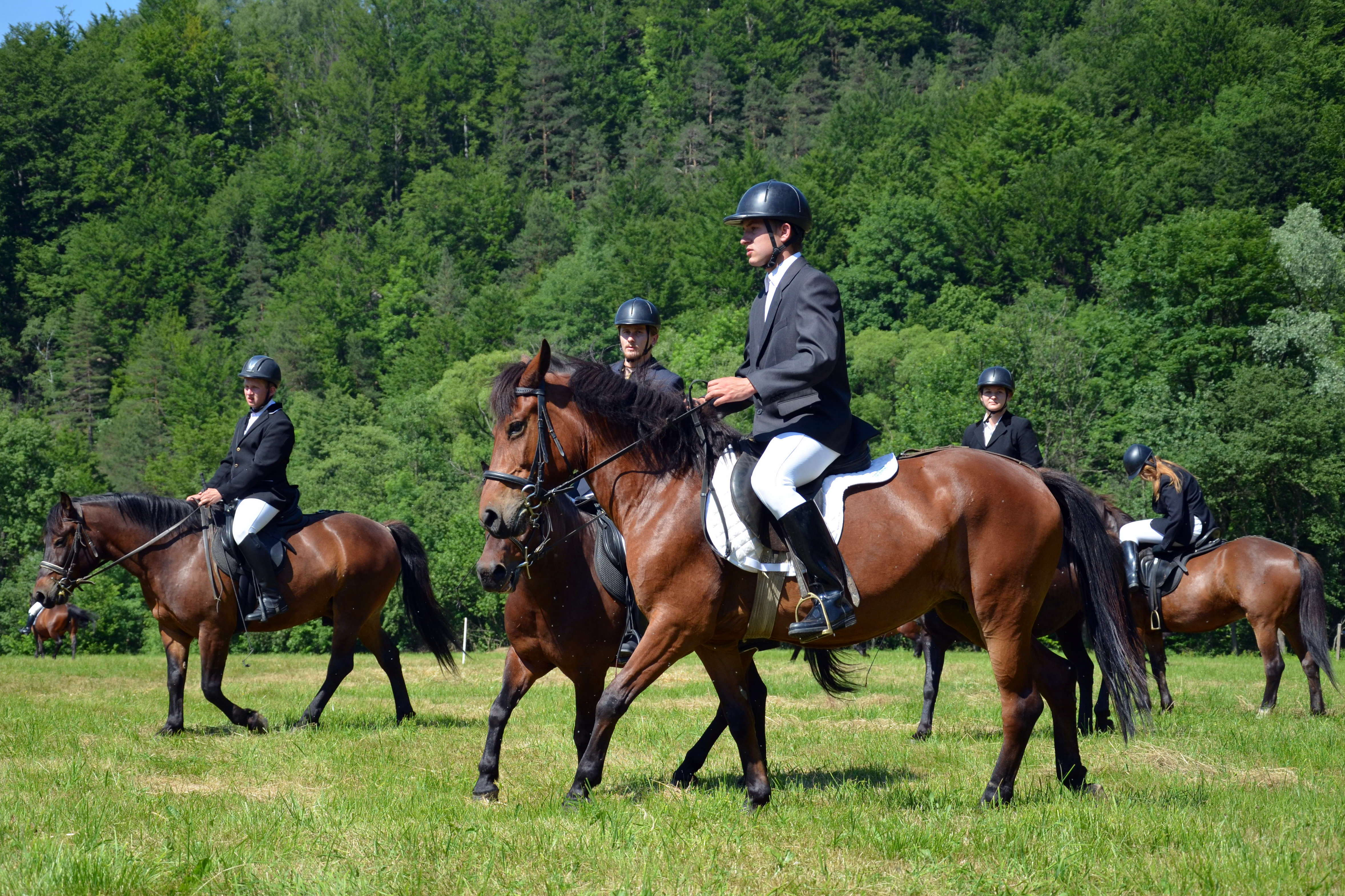 Reiten auf den Huzulen Pferden, Rudawka Rymanowska